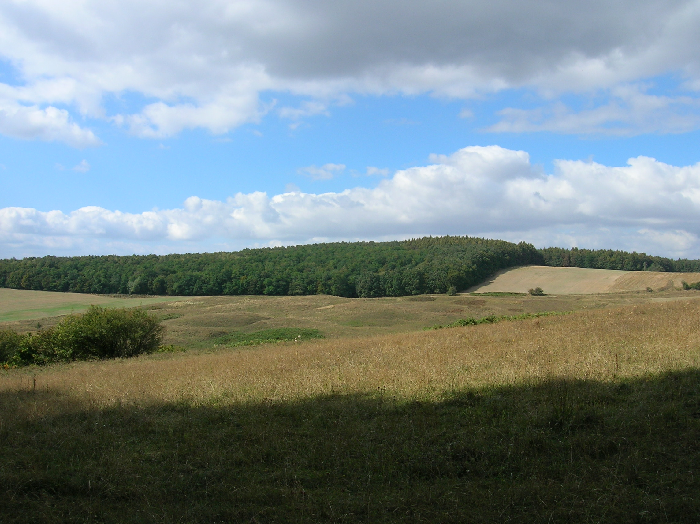 Runc Forest (Nature Reserve), Neamț and Bacău counties, Romania